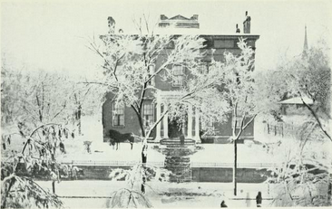 Jennie Casseday's residence in Louisville, Kentucky until the close of the Civil War, built by her father in 1845.